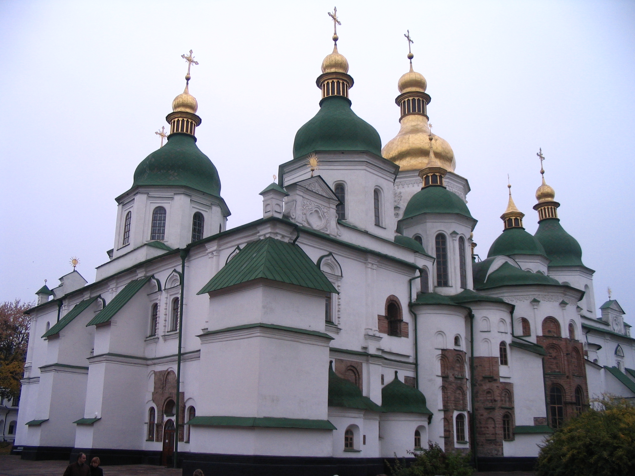 Saint Sophia Cathedral in Kiev, Ukraine